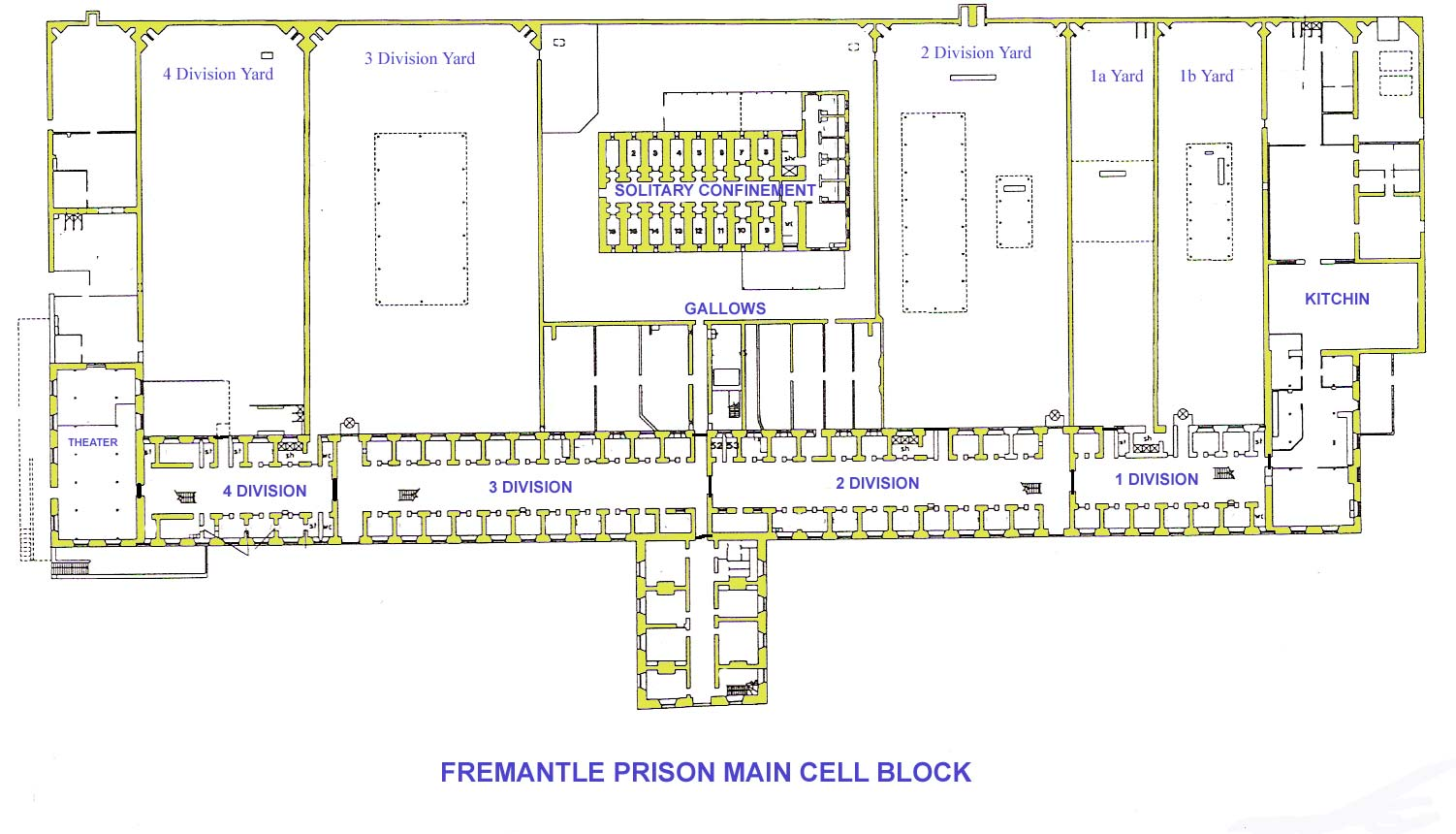 Map of Fremantle Prison Main Cell Block. Limestone walls are shown in yellow.